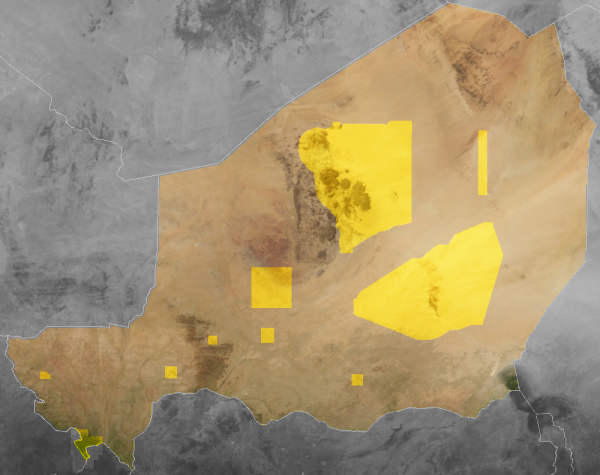 National Parks, reserves, and protected areas of the Republic of Niger. Image from Image:Niger BMNG.png Boundaries derived from data at